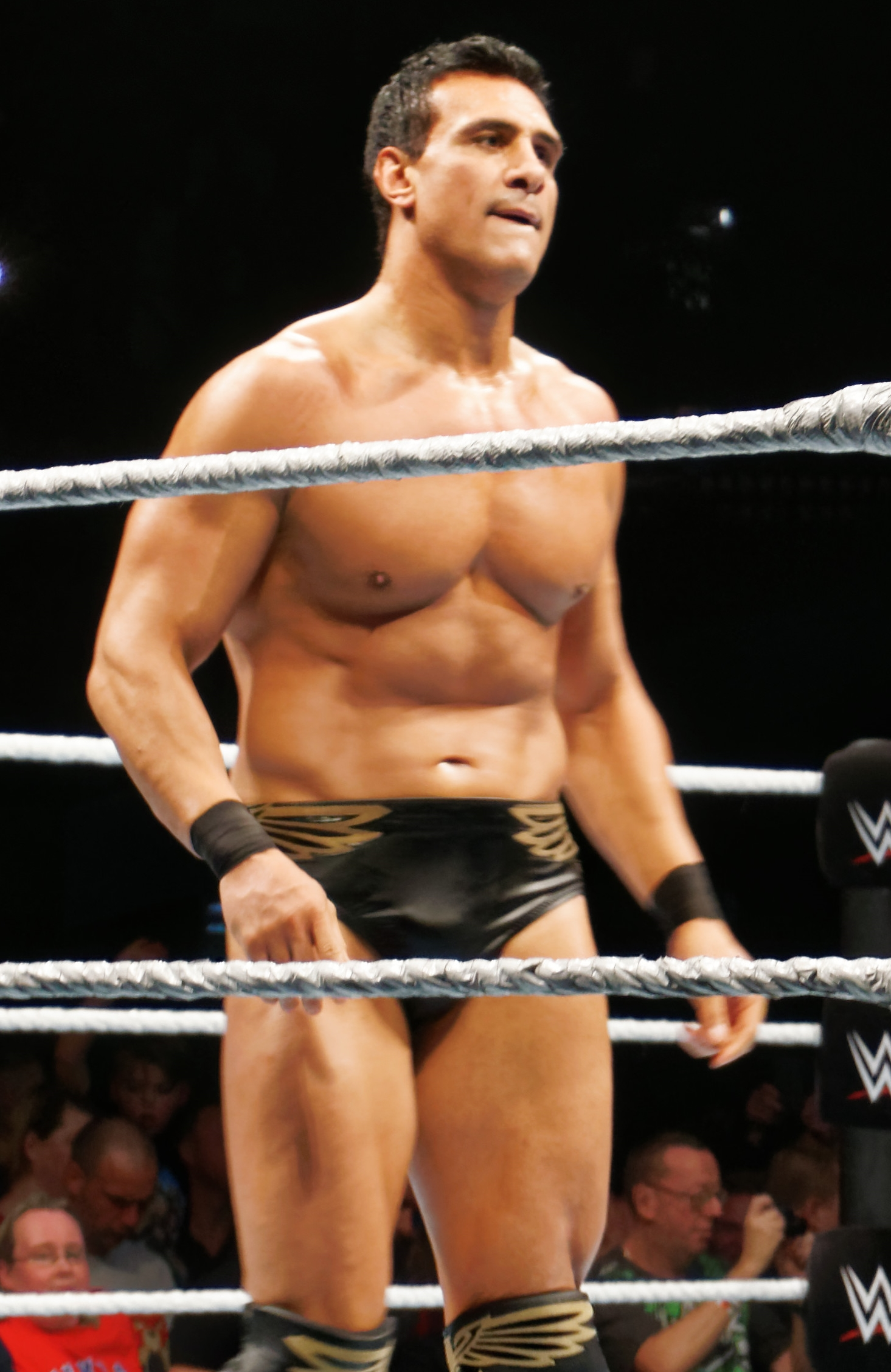 Alberto Del Rio in April 2016